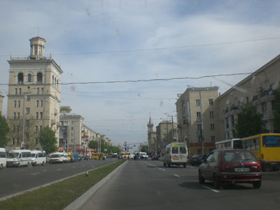 micro bus